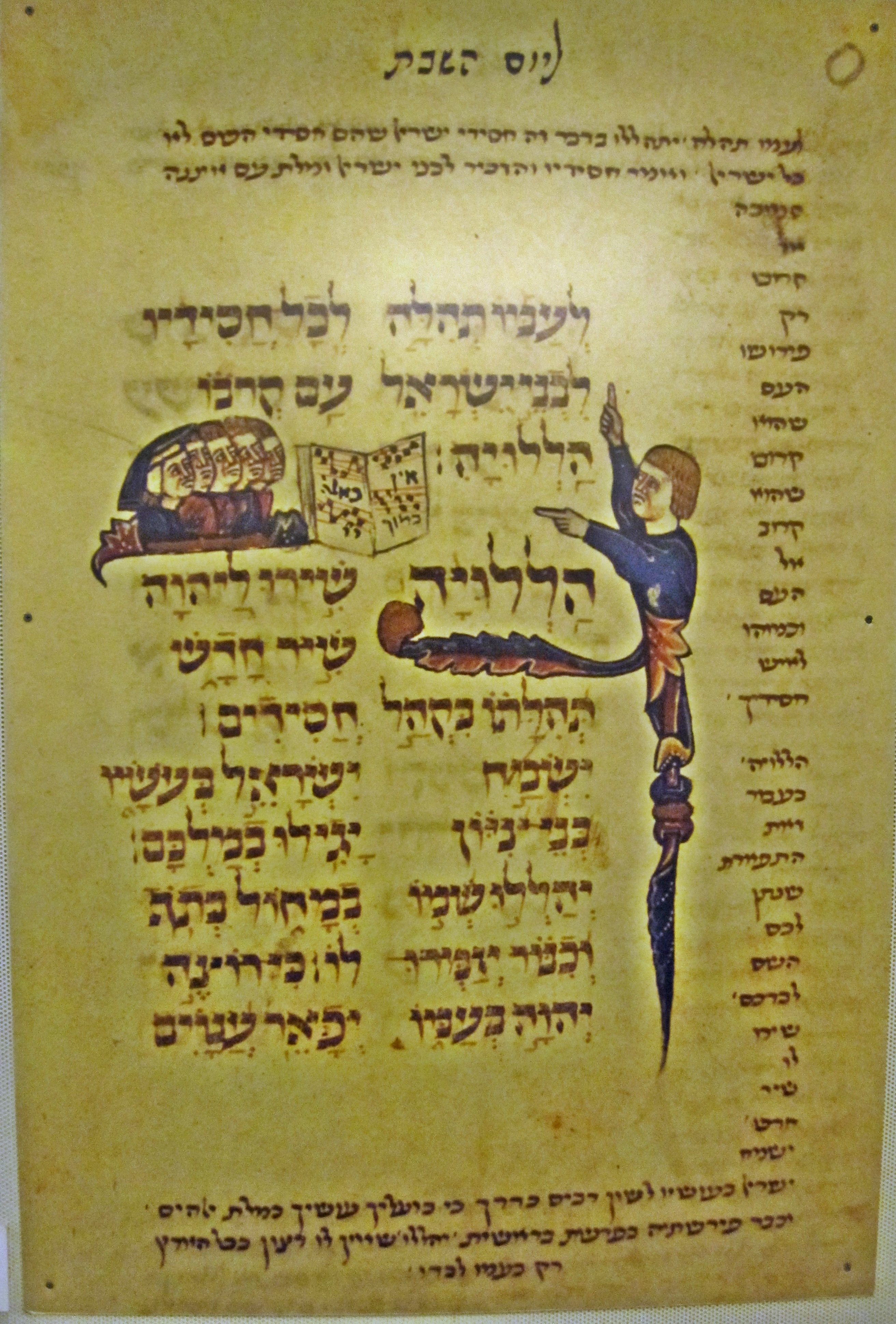 This is a photo of an exhibit at the Diaspora Museum, Tel Aviv - Beit Hatefutsot. The Note says: Hallelujah, Sing into the lord a new song (psalm 149) Manuscript on parchmen, france, 13th century palatine library, parma